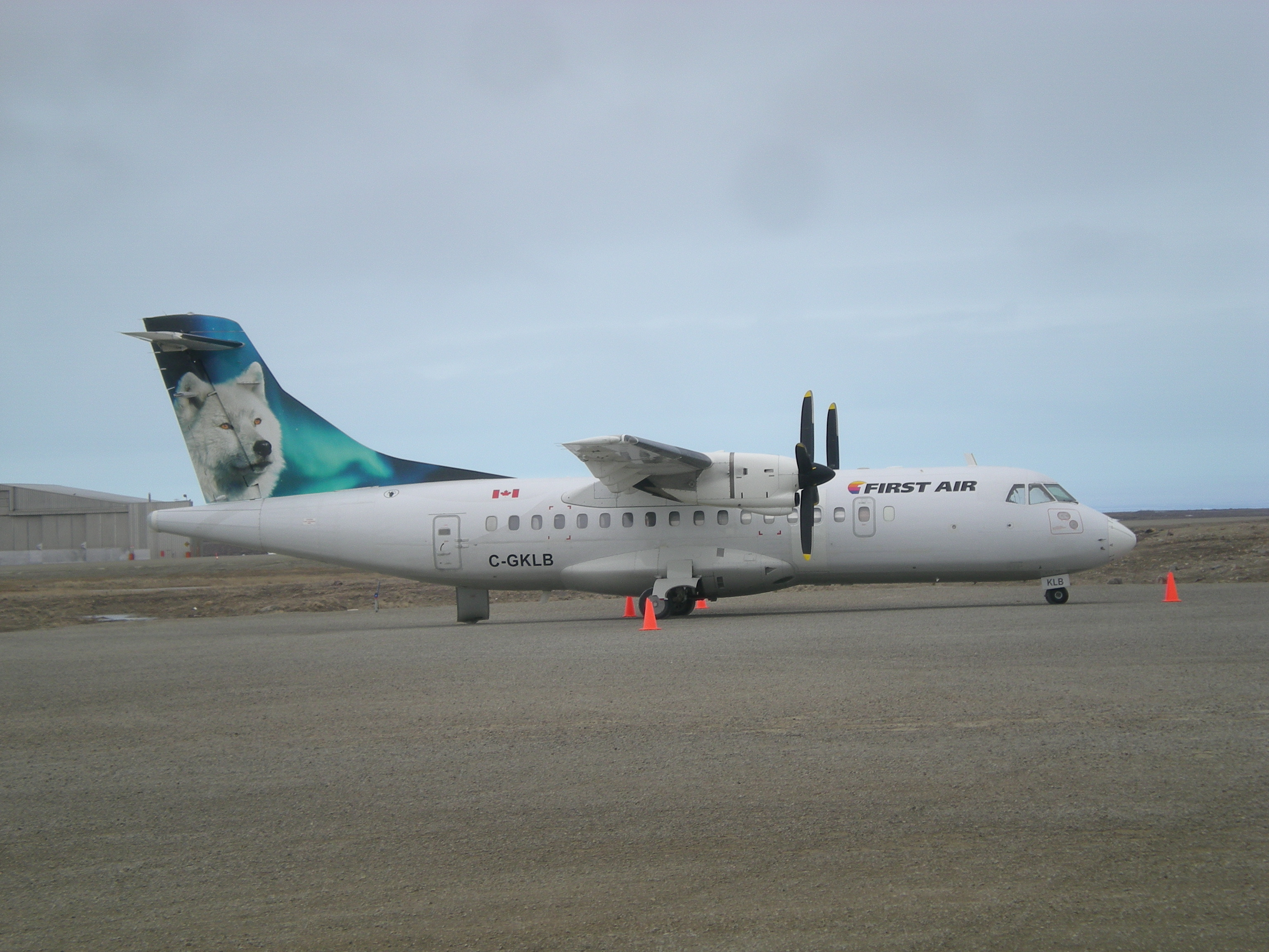 First Air's AT43 C-GKLB at Cambridge Bay Airport prior to boarding.